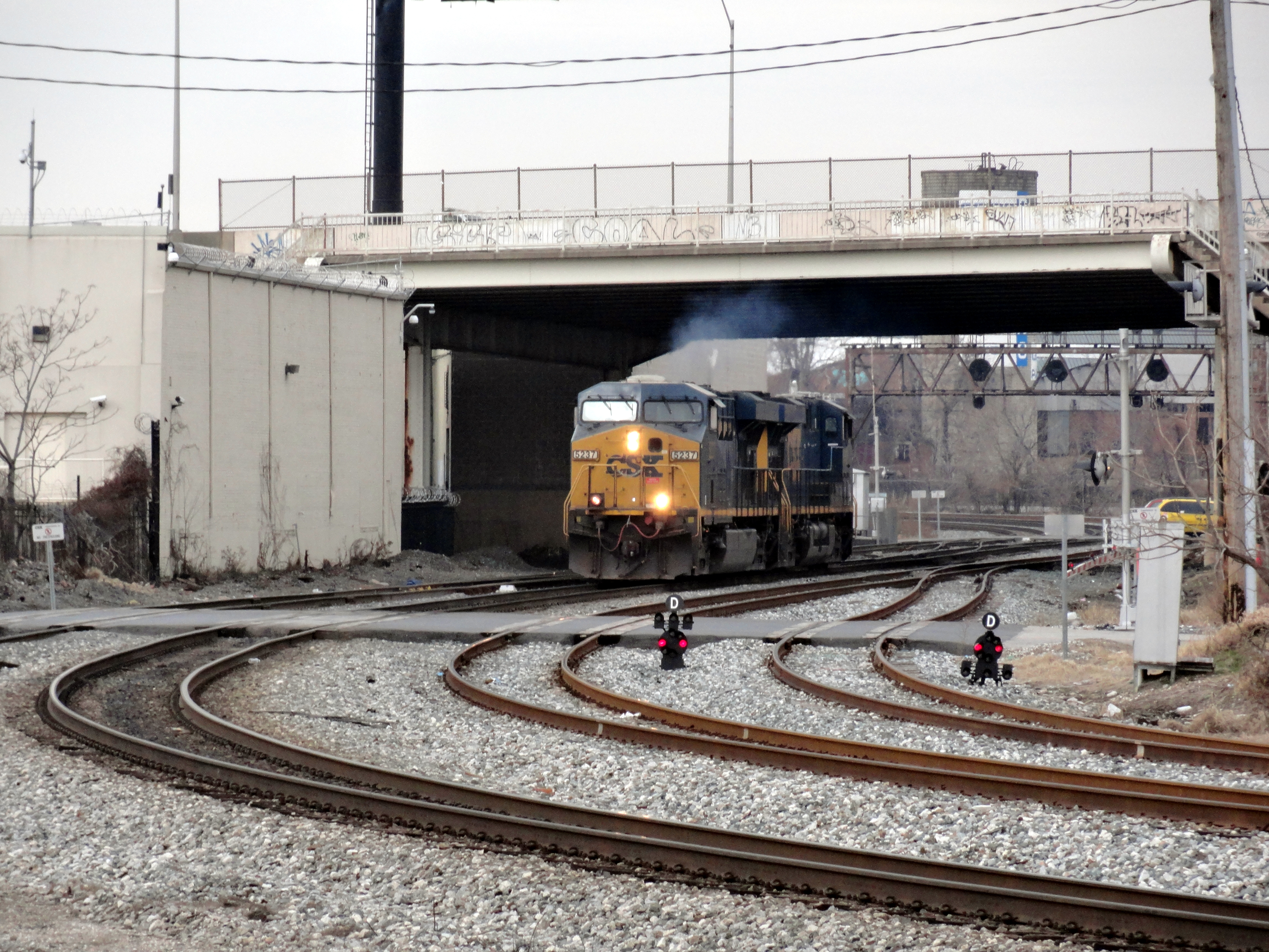 CSX locomotives 5237 and 5466 enter Baileys Wye on the northbound main line of the Baltimore Terminal Subdivision.